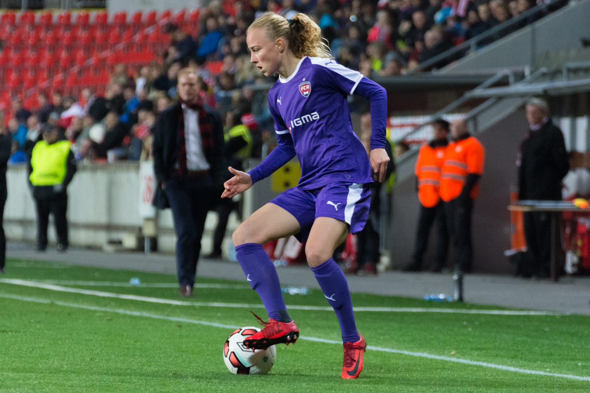 Ebba Wieder vs Slavia Praha on 1 November 2018